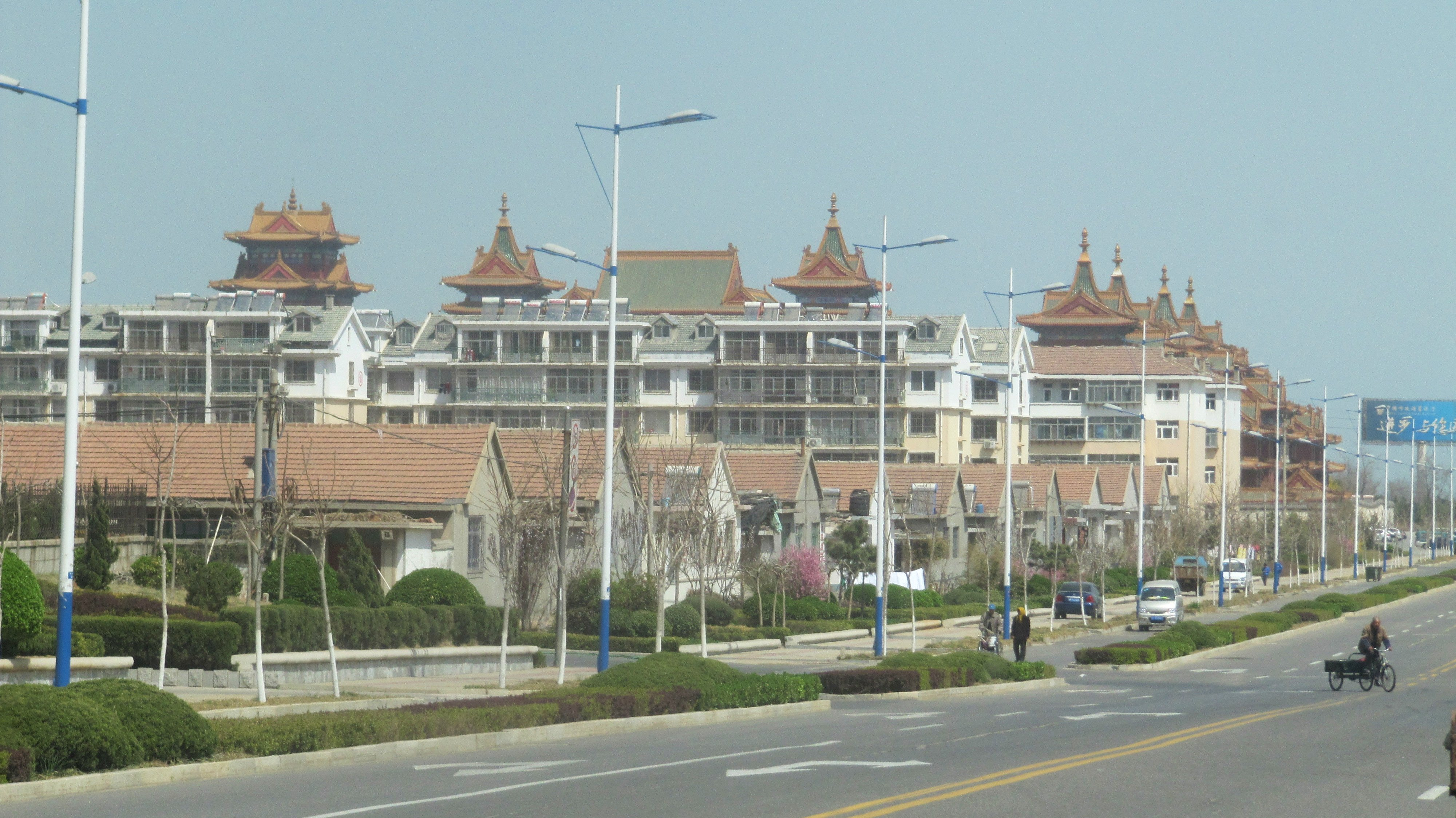 View of Three immortals mount from Haishi West Road in Penglai, Shandong province, China.